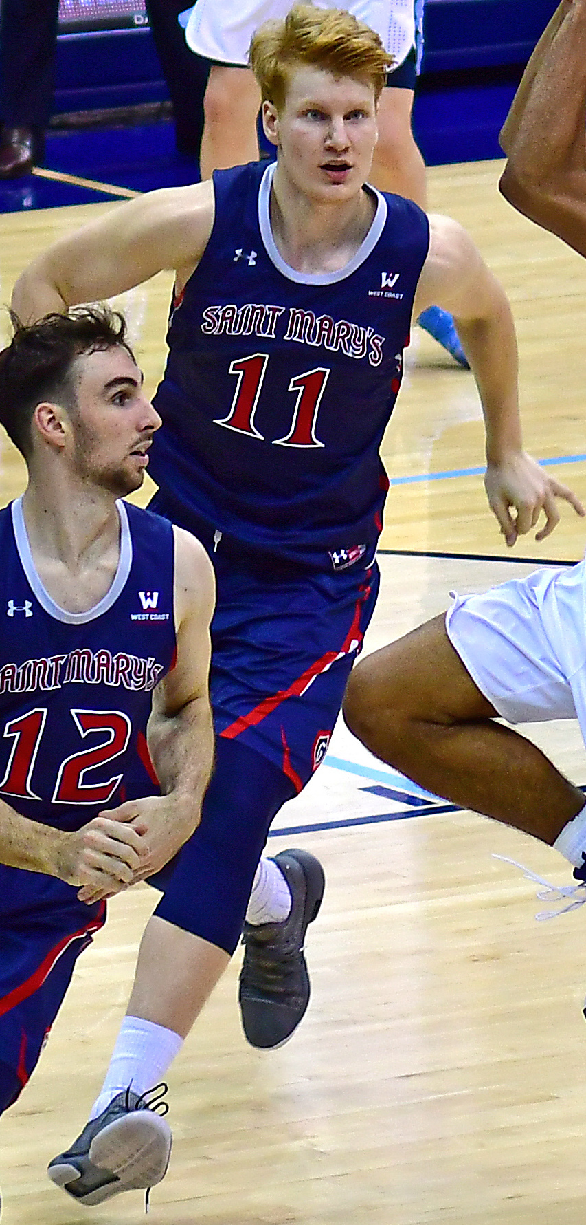 DSC_3715 ISAIAH WRIGHT